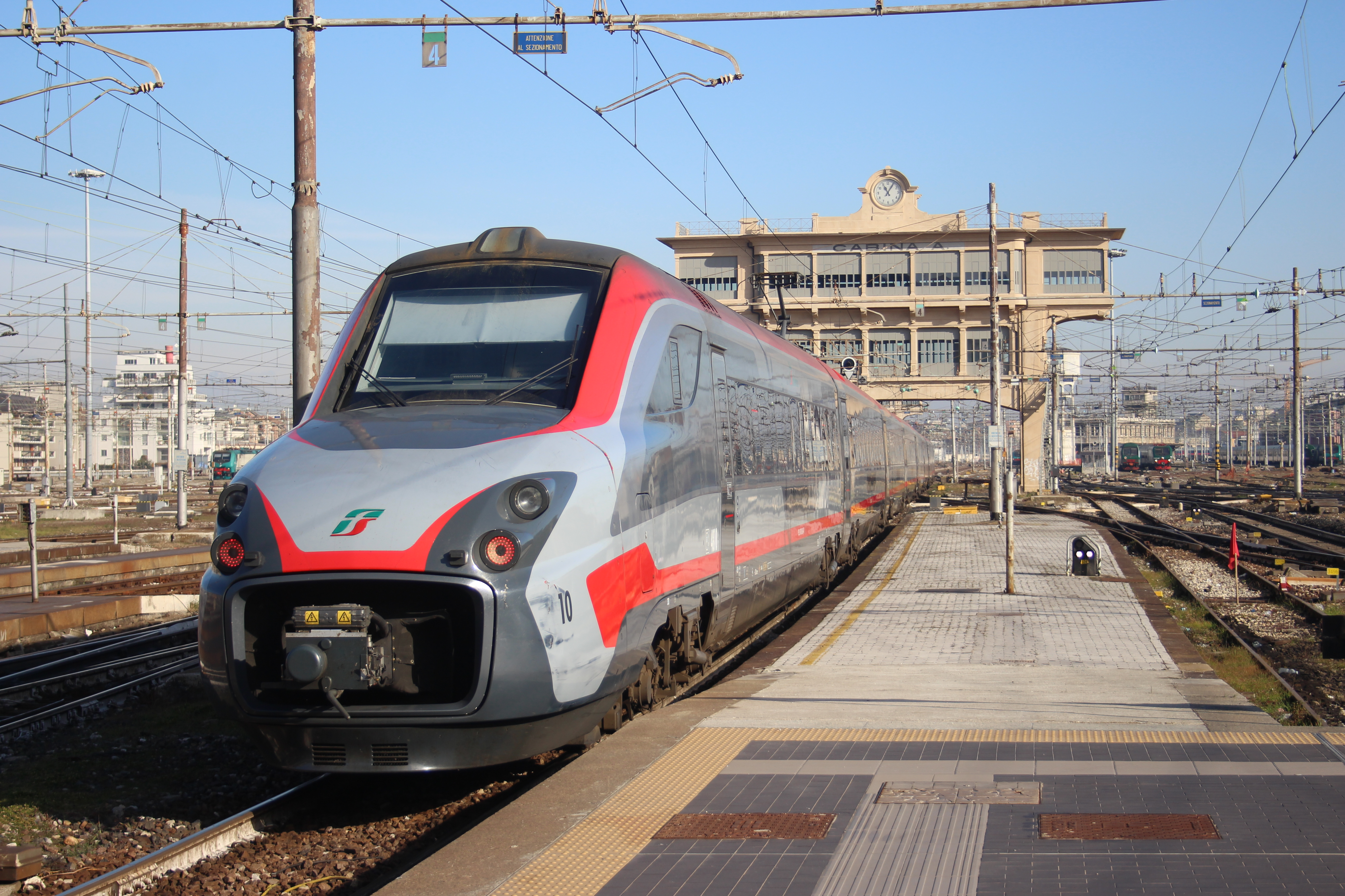 A Frecciargento FS ETR.700 unit departing Milano Centrale. This unit is a former Fyra V250 trainset, a train known for being plagued with quality problems. It was eventually abandoned by the original operator (SNCB/NS), and now plies its trade around Italy on the Frecciargento high-speed routes, operated by Trenitalia.